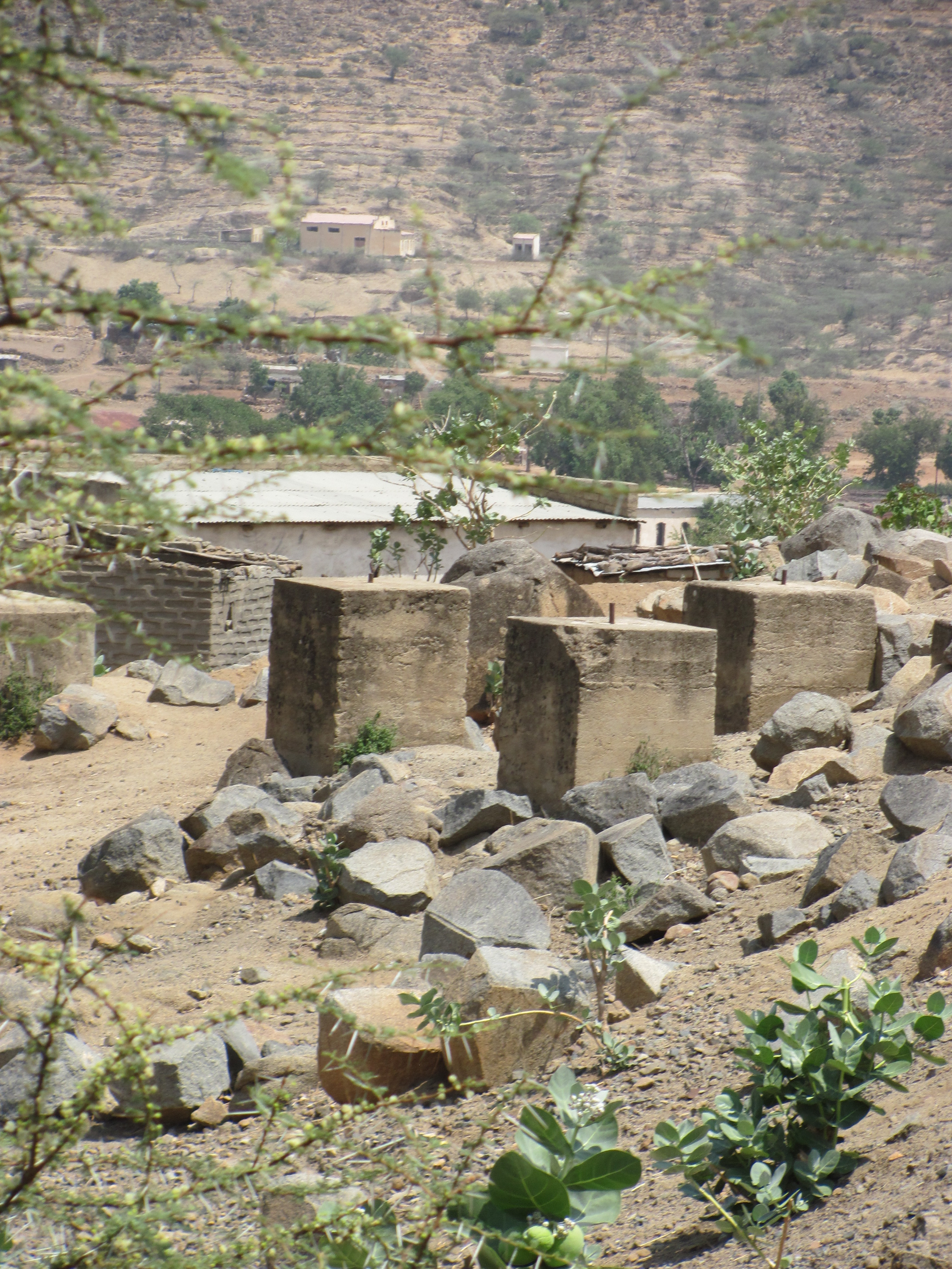 Foundation of a pylon of the former Massawa-Asmara cableway, Eritrea, near Ghinda